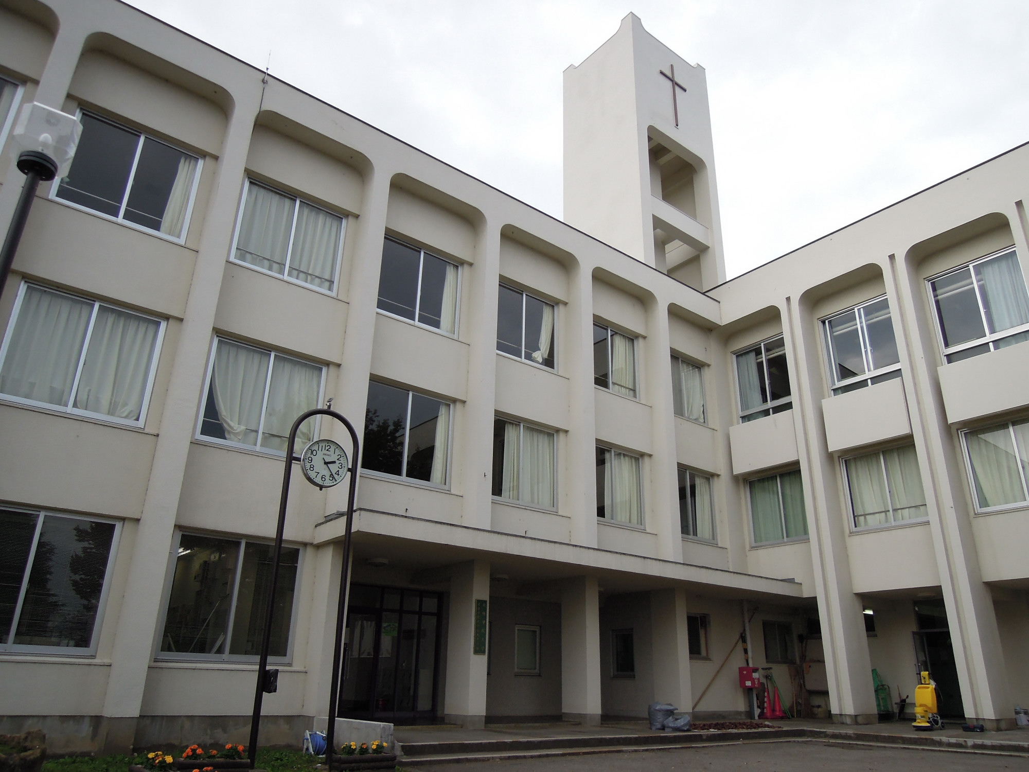 Hokuriku Gakuin University, School Building (Kanazawa, Ishikawa)